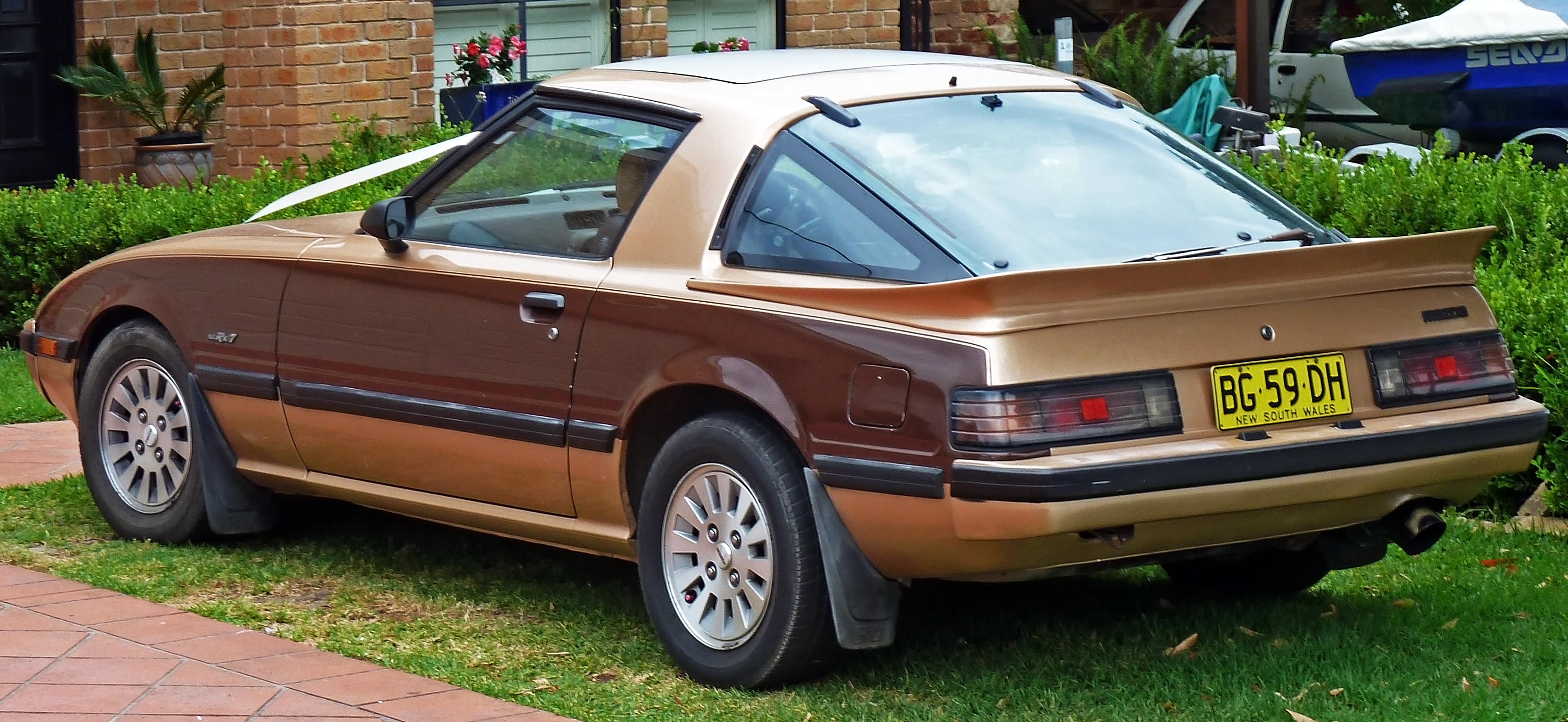 1984 Mazda RX-7 (FB Series 3) coupe. Photographed in Sans Souci, New South Wales, Australia.